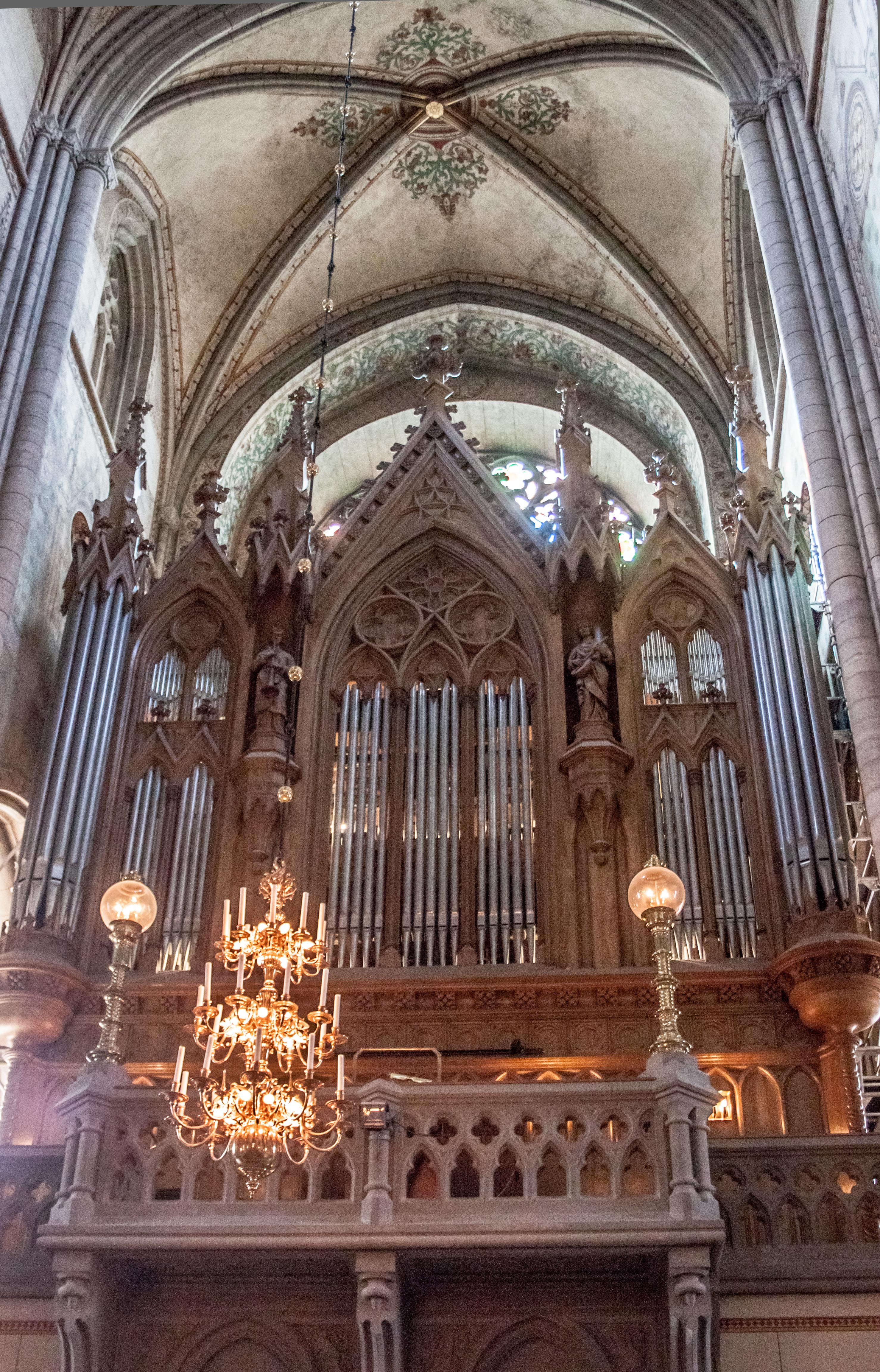 Uppsala cathedral